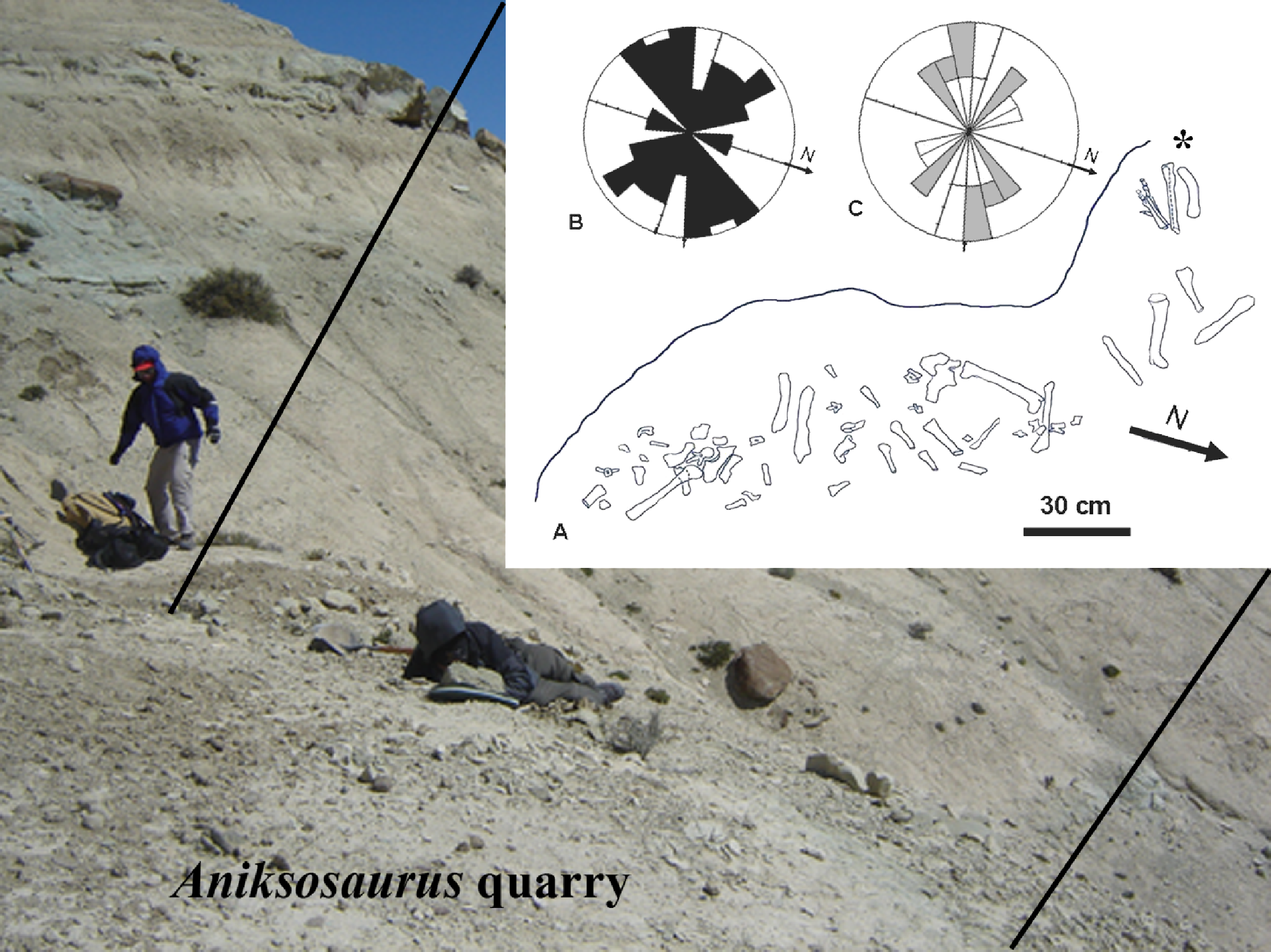 Quarry map for the Aniksosaurus darwini site in the Bajo Barreal Formation. (A) Map of the site, showing the distribution of the bones as recovered. An asterisk (*) denotes the location of the holotype (right hindlimb). (B) Rose diagram depicting the orientations of all bones recovered in the quarry. (C) Rose diagram depicting the orientations of only the long bones: femora (white) and tibiae (gray). The people in the photograph, RDM and M. Luna have given written informed consent, as outlined in the PLOS ONE consent form, to publication of their photograph.